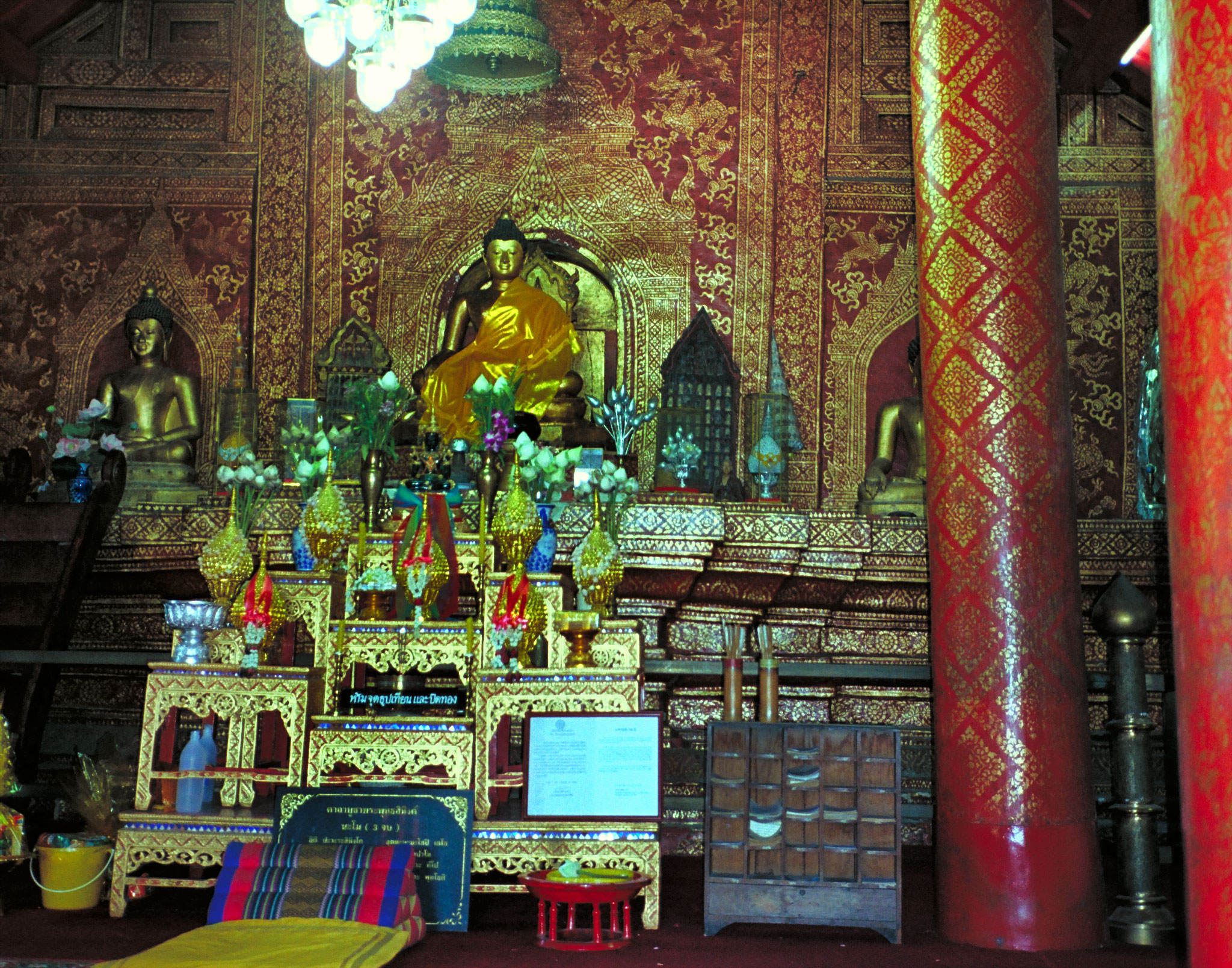 Buddha image named Phra Puttha Sihing, Wat Phra Singh, Chiang Mai, northern Thailand